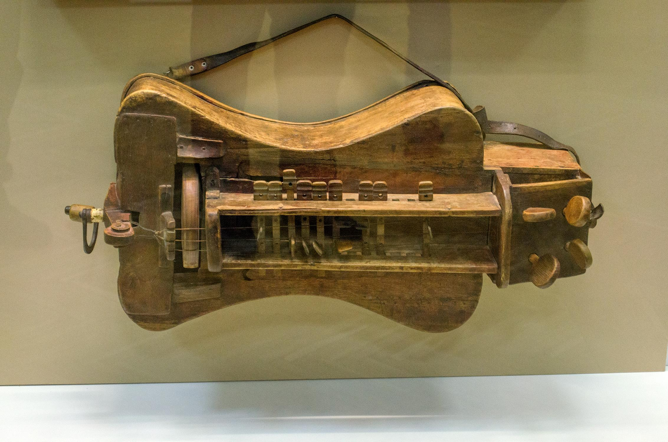 Hurdy-gurdy. National Museum of the History of Ukraine.